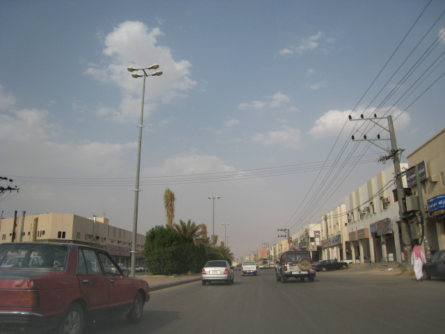 Traffic in Muzahmiyah Muzahmiyah is located at 50km Southwest of Riyadh